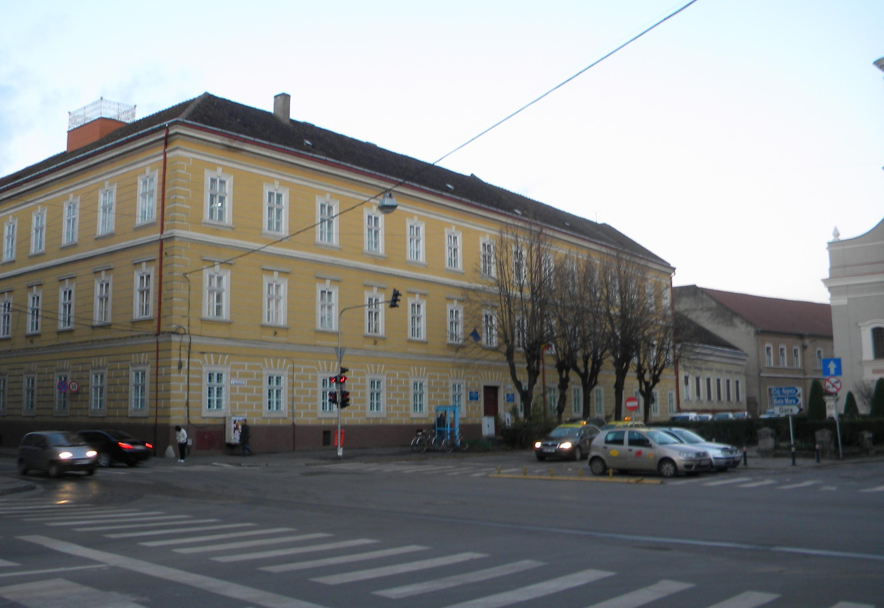 Reformed College, Satu Mare (Szatmárnémeti)